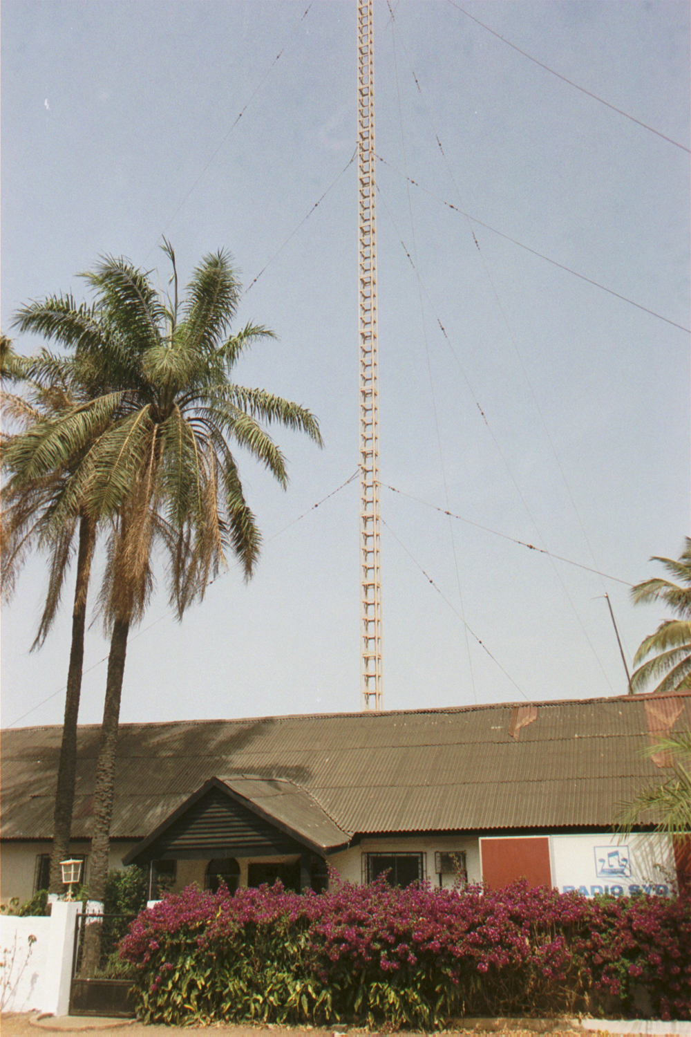 The building and antenna tower of Radio Syd in The Gambia as seen in January 2000